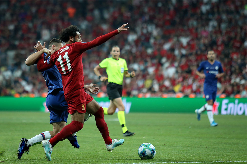 Liverpool vs. Chelsea, 2019 UEFA Super Cup